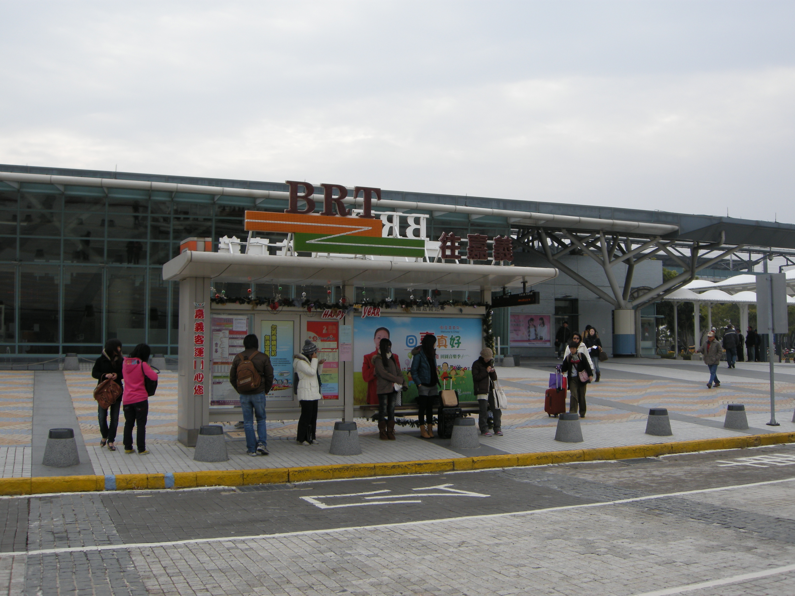 Chiayi BRT Station in front of THSR Chiayi Station.